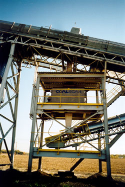 Scantech